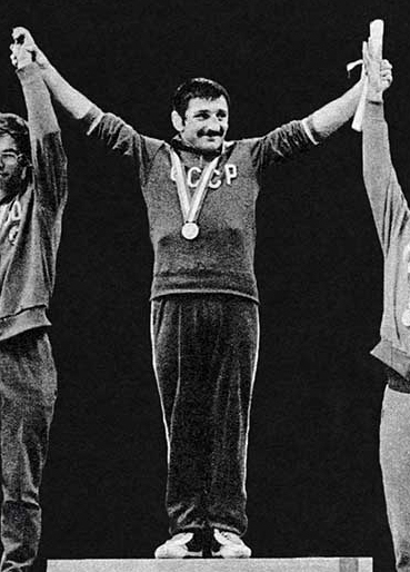 Zagalav Abdulbekov at the 1973 World Championships in Tehran